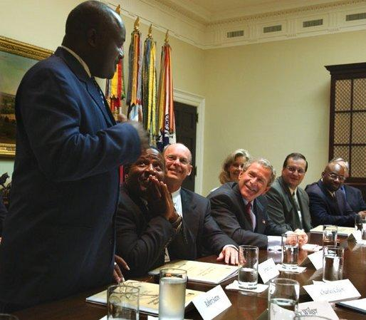 President George W. Bush listens to Robert Sutton, left, a graduate of the Prison Fellowship Ministries InnerChange Freedom Initiative, during a roundtable discussion in the Roosevelt Room Wednesday, June 18, 2003. The initiative is is part of the Texas Department of Criminal Justice System and the new prisoner reentry and treatment program proposed by the Department of Justice. White House photo by Tina Hager